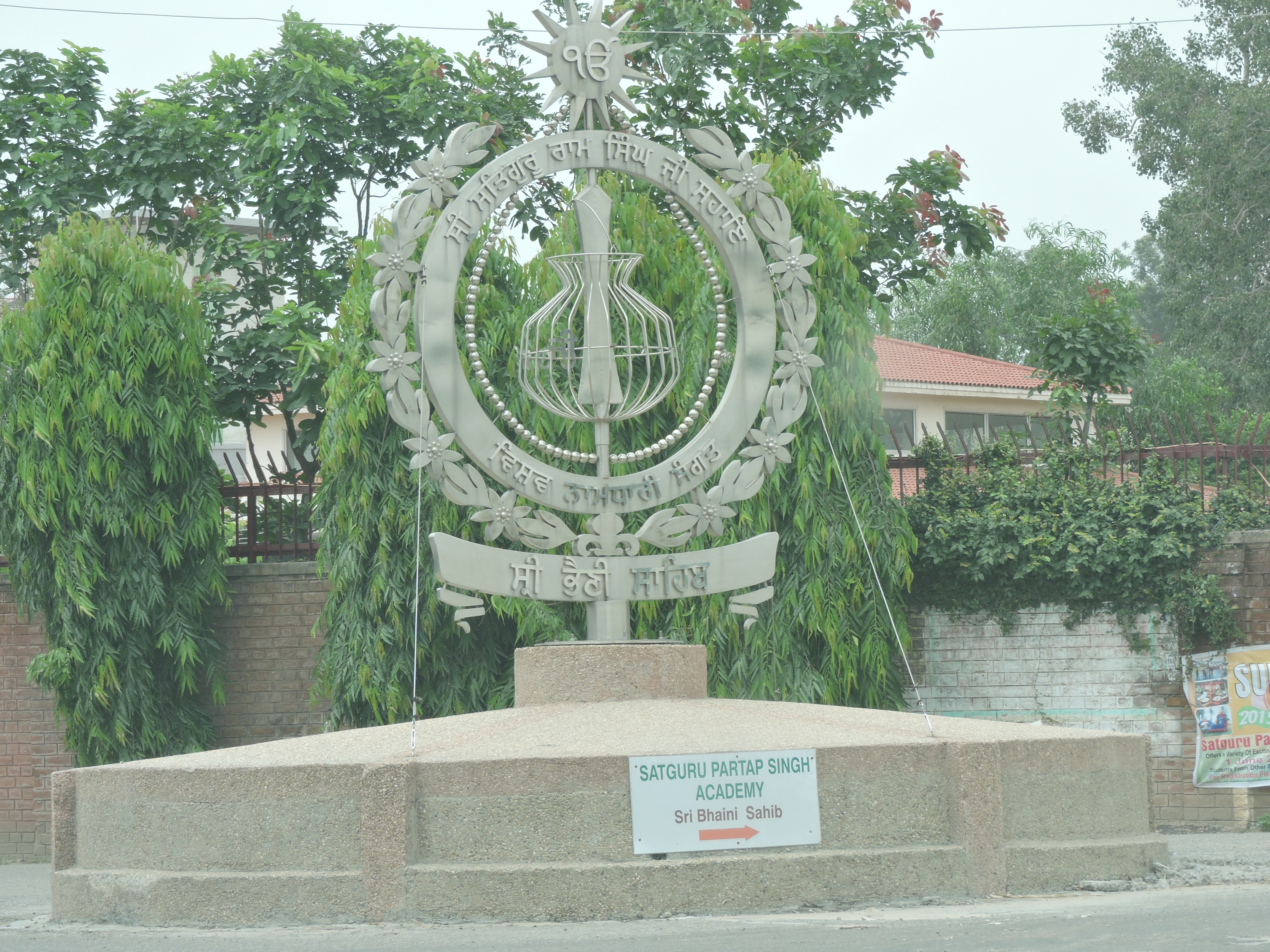 Chowk at the name of Satguru Ram Singh ,The Namdhari Guru , at Bhaini Sahib ,district Ludhyana, Punjab, India